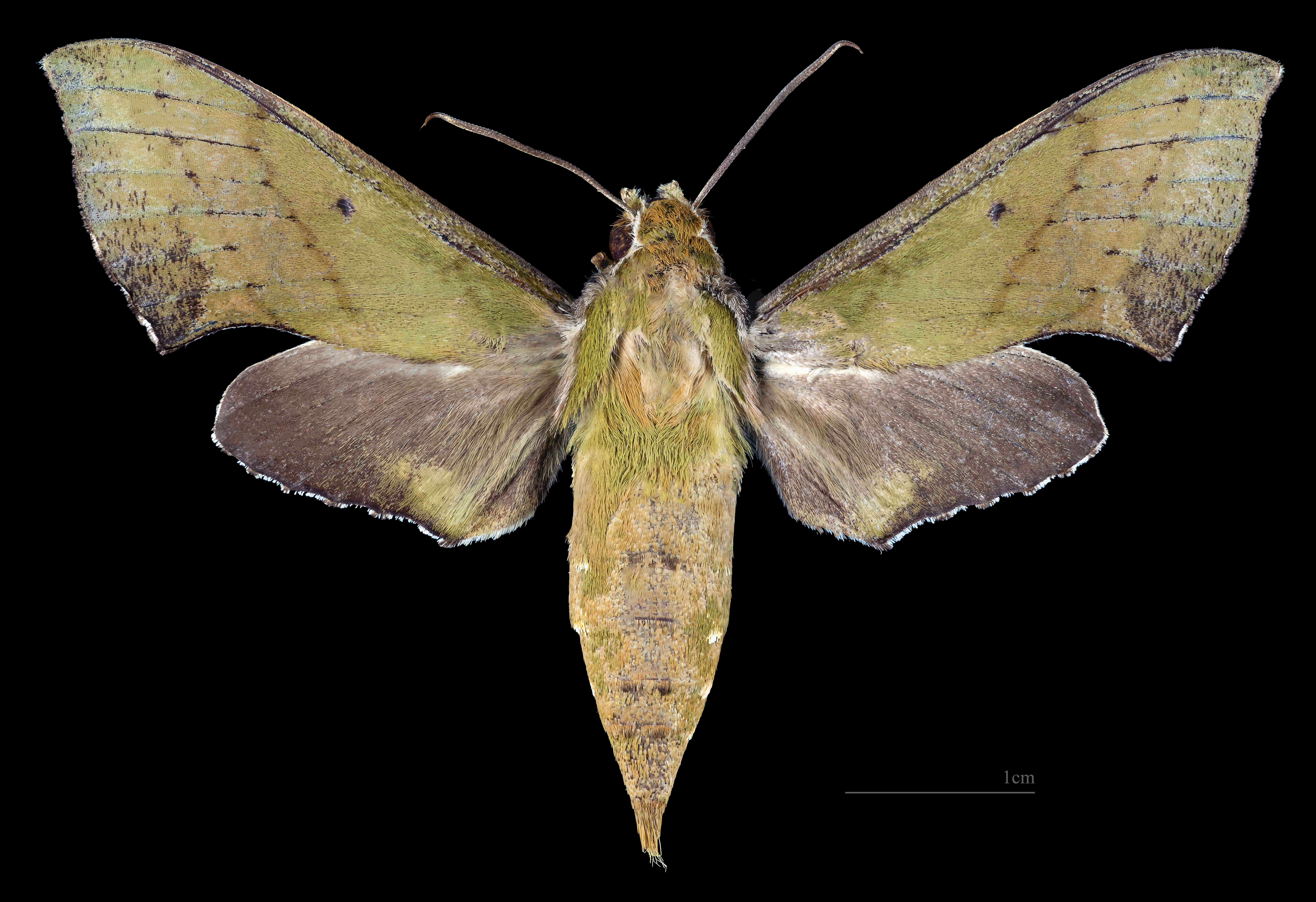 Xylophanes depuiseti - Dorsal side Collection of the Mathematician Laurent Schwartz